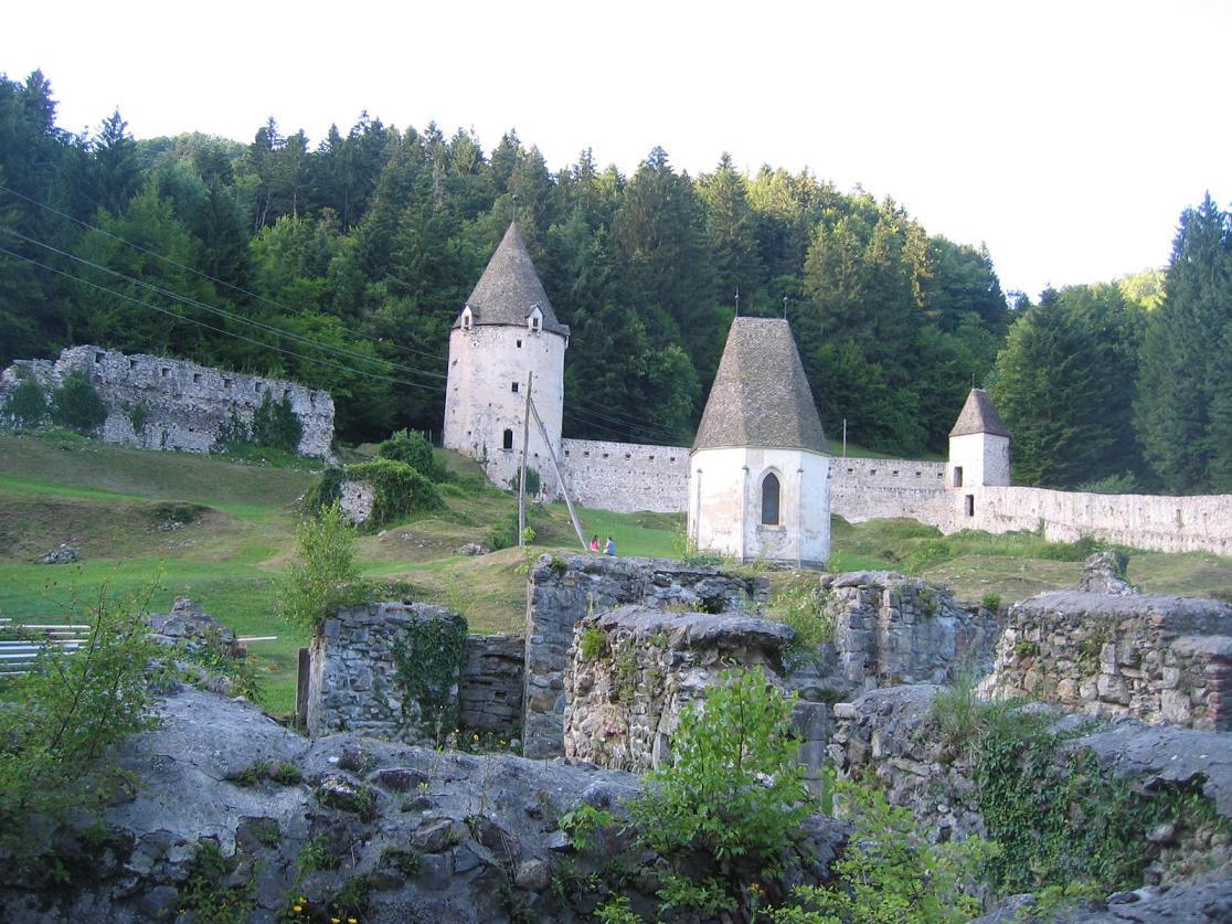 Žiče monastery of Carthusian monks (ruins) photo:Ziga 21:33, 12 August 2006 (UTC)